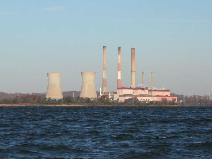 Chalk Point Generating Station located in Maryland on the Patuxent River.